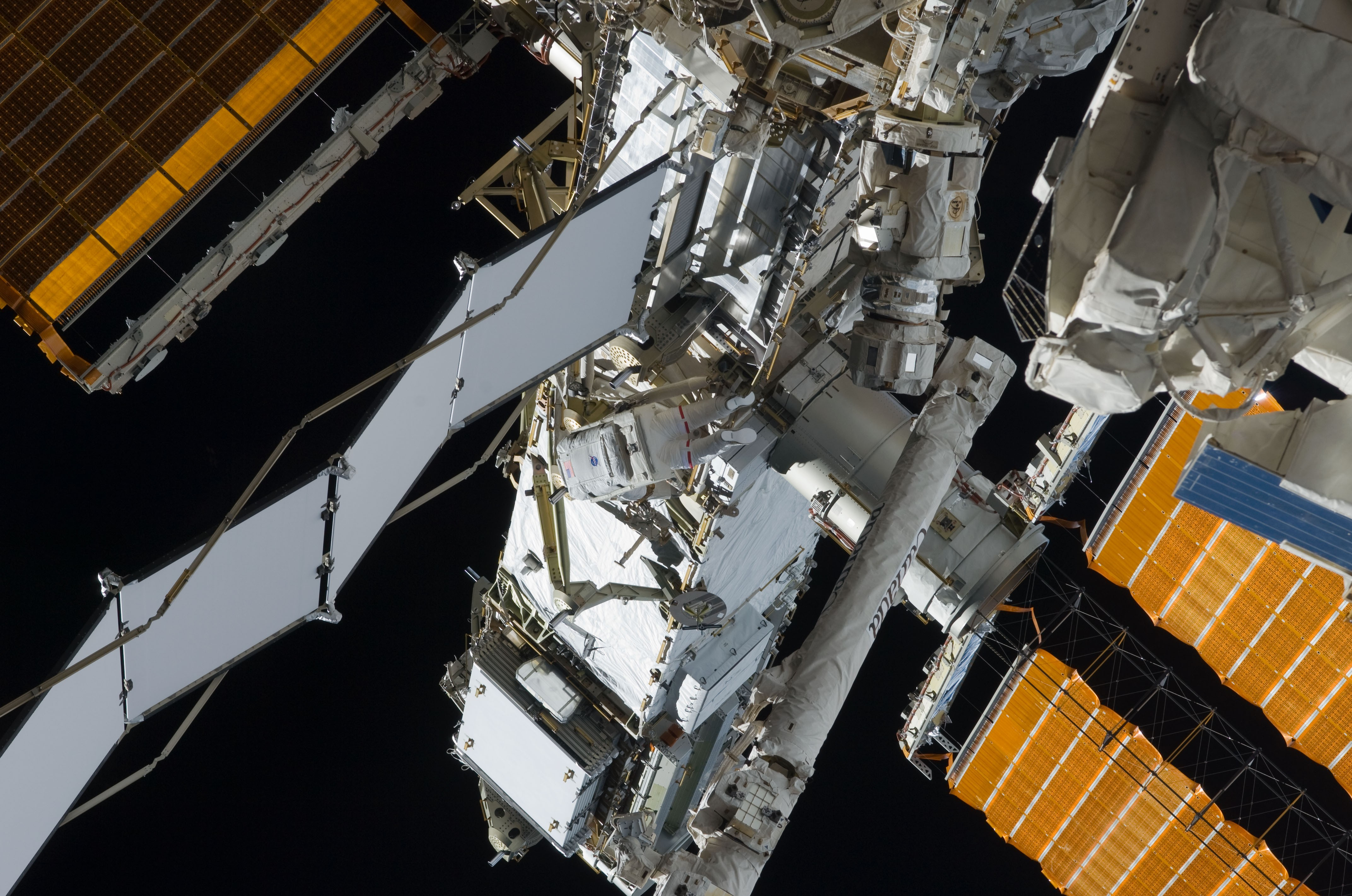 Astronaut Steve Swanson (center), STS-119 mission specialist, participates in the mission's first scheduled session of extravehicular activity (EVA) as construction and maintenance continue on the International Space Station. During the six-hour, seven-minute spacewalk, Swanson and astronaut Richard Arnold (out of frame), mission specialist, connected bolts to permanently attach the S6 truss segment to S5. The spacewalkers plugged in power and data connectors to the truss, prepared a radiator to cool it, opened boxes containing the new solar arrays and deployed the Beta Gimbal Assemblies containing masts that support the solar arrays.